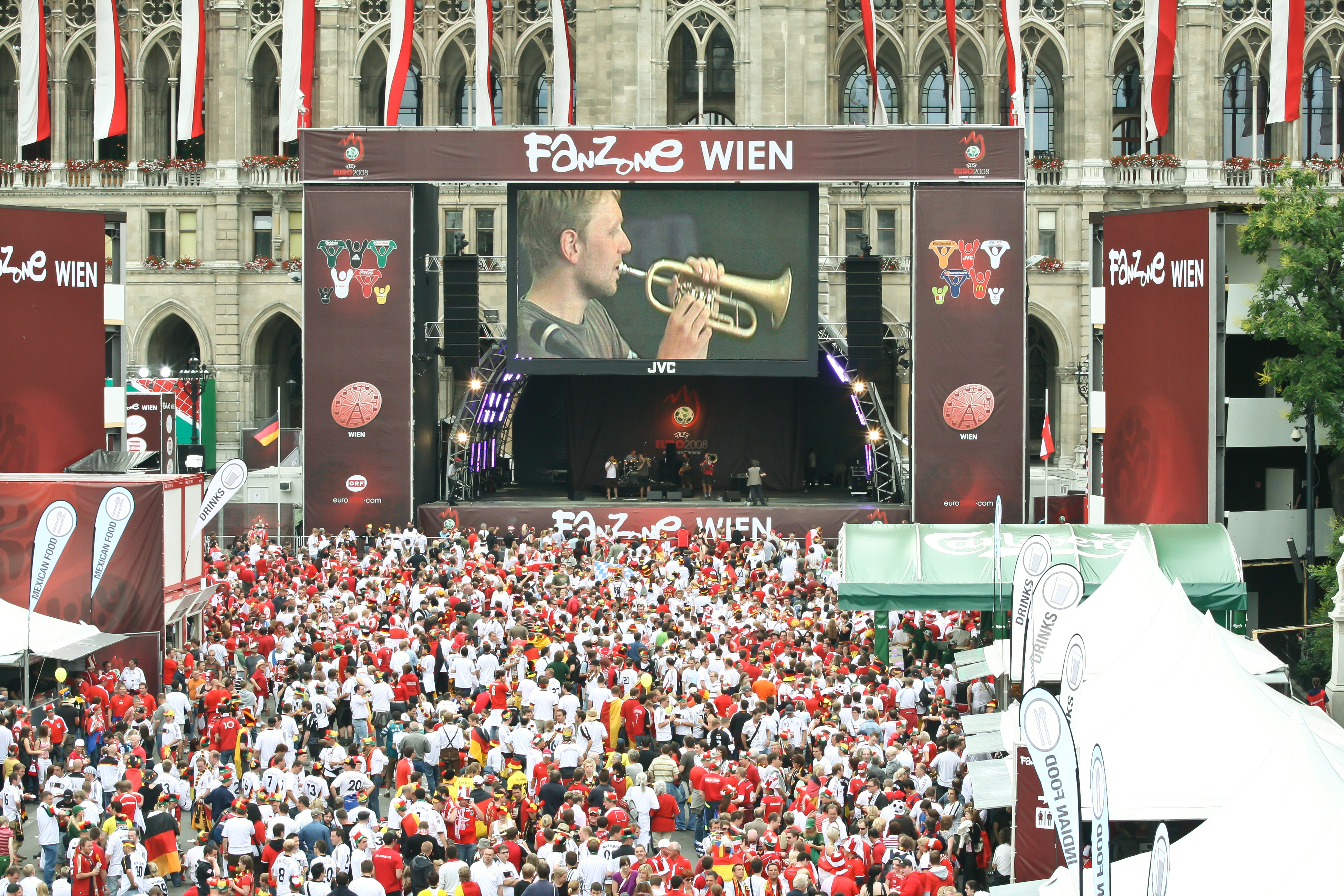 Public Viewing in Vienna during UEFA Euro 2008